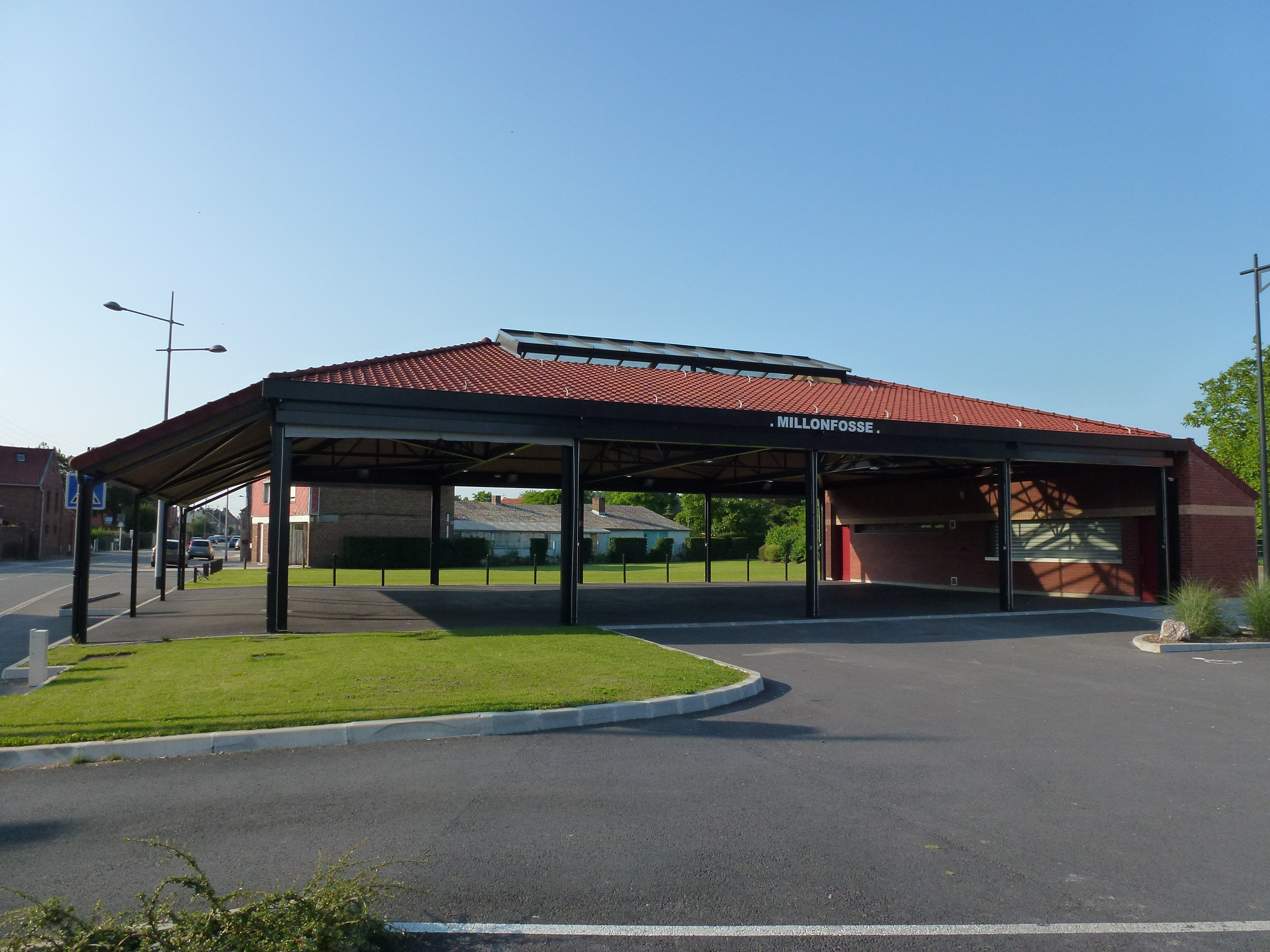 Millonfosse (Nord, Fr) halle